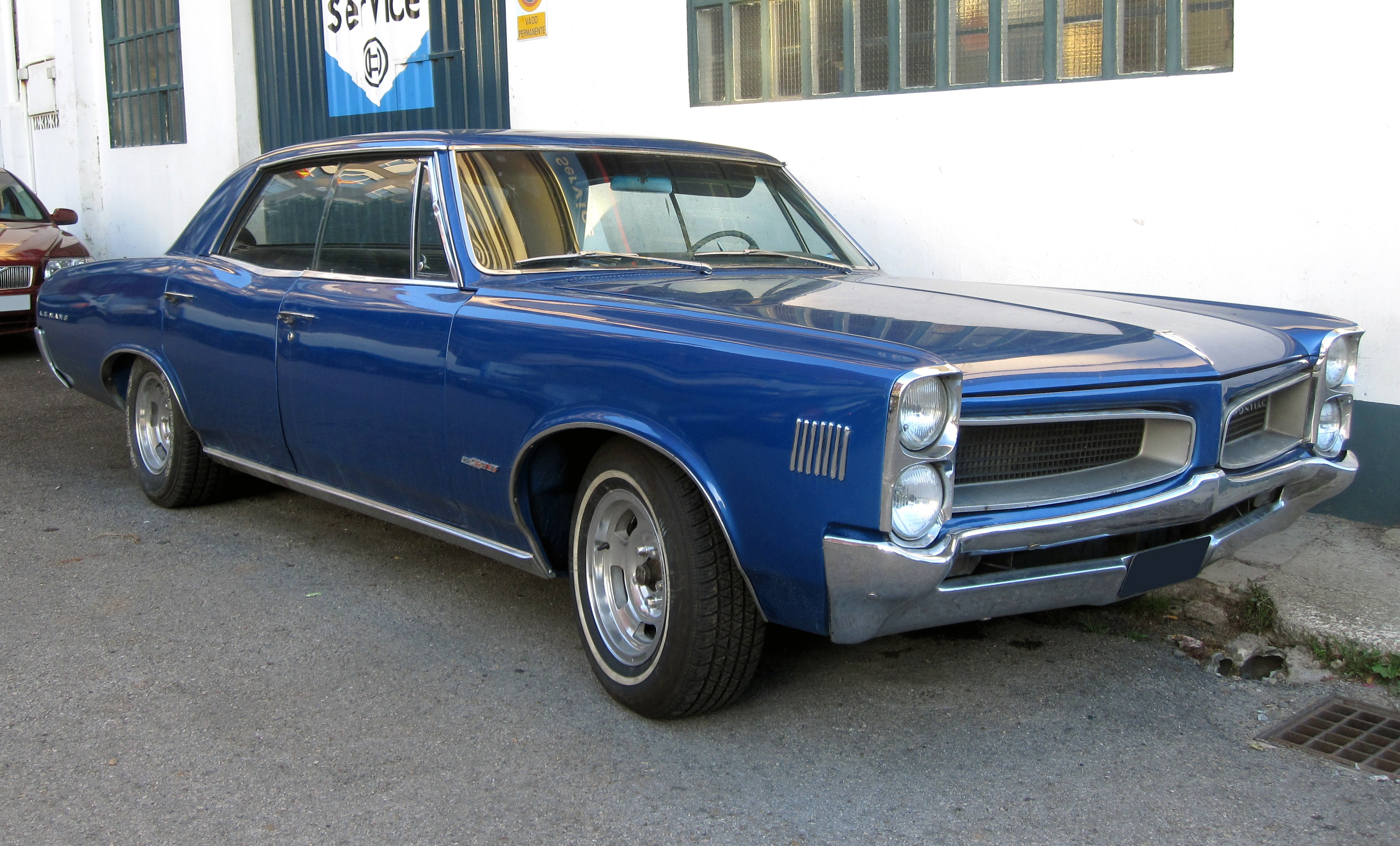 Couldn't believe it when I saw this standing outside this garage! Of course we stopped the car and I got out to take several pictures of it. What a nice huge thing!! Loved it. It had plates from somewhere I couldn't identificate. Looked pretty solid, I wonder whose is it.